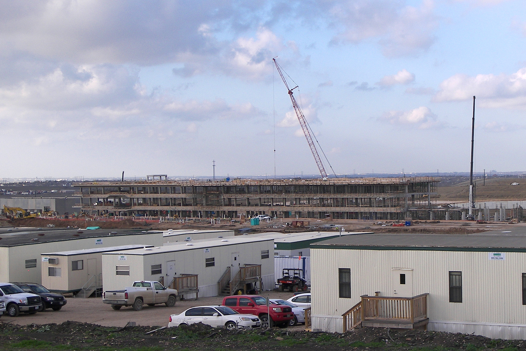 Pit building under construction at Circuit of the Americas.